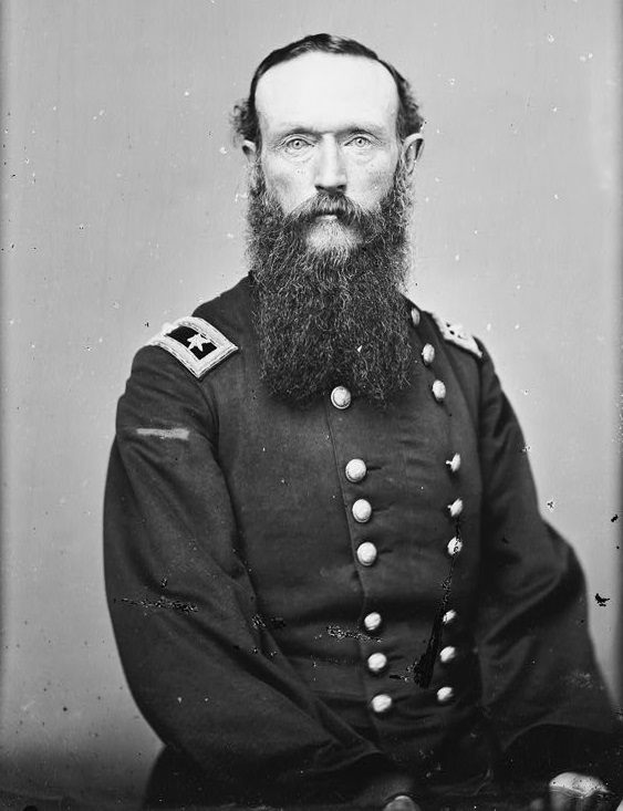 Black and white photo shows Frederick Steele in the dark blue uniform of a USA general officer. This is a cropped version of the original American Civil War era photo.